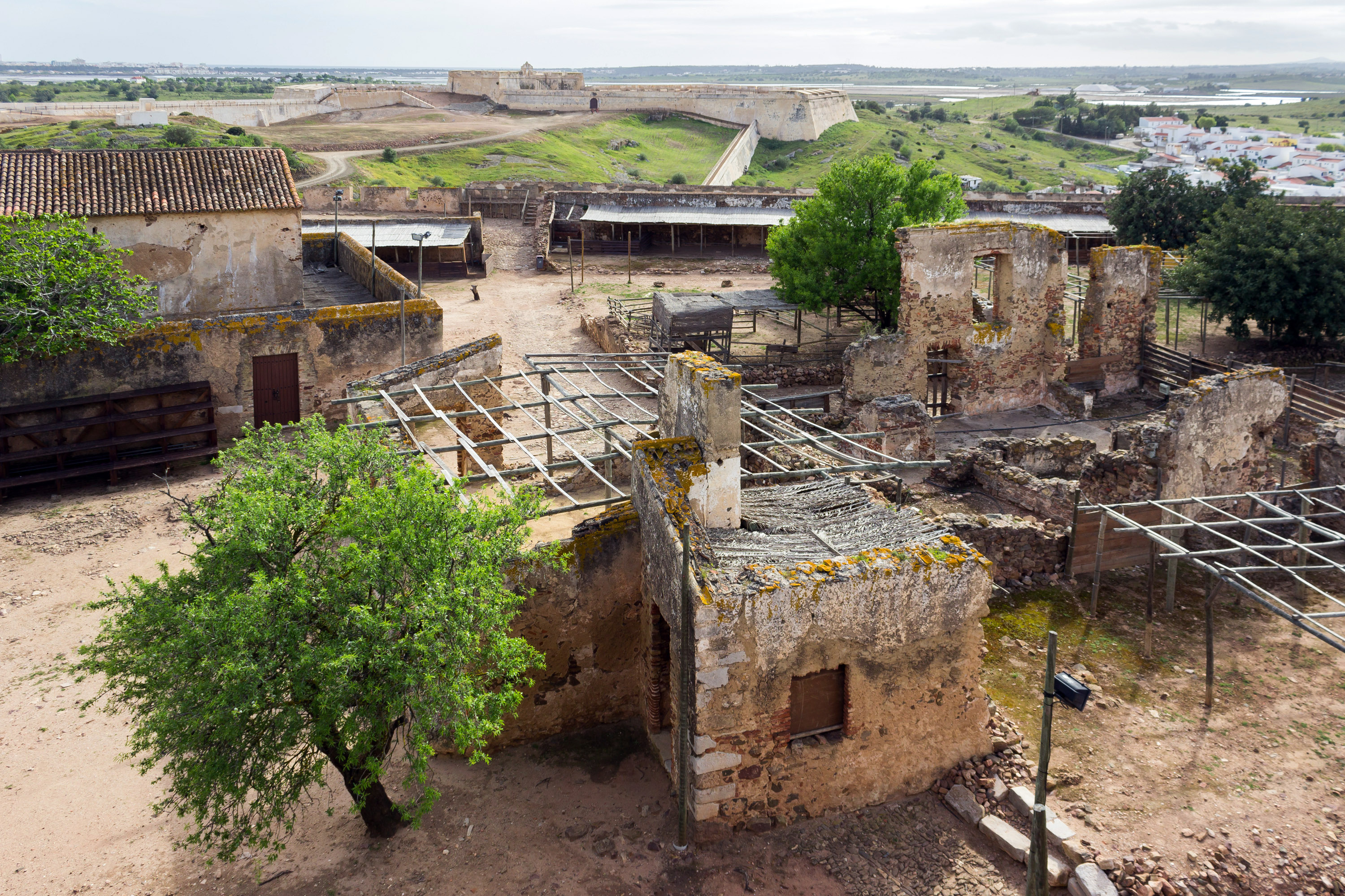 Interior of the castle in Castro Marim, with the fort seen in the background